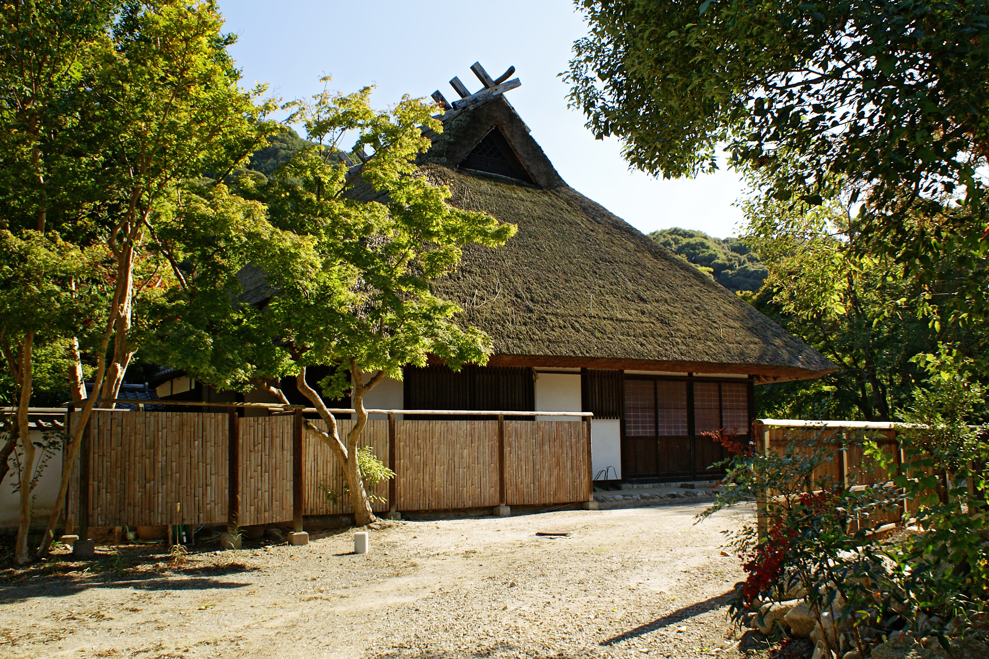 Anyoin, Kobe, Hyogo prefecture, Japan